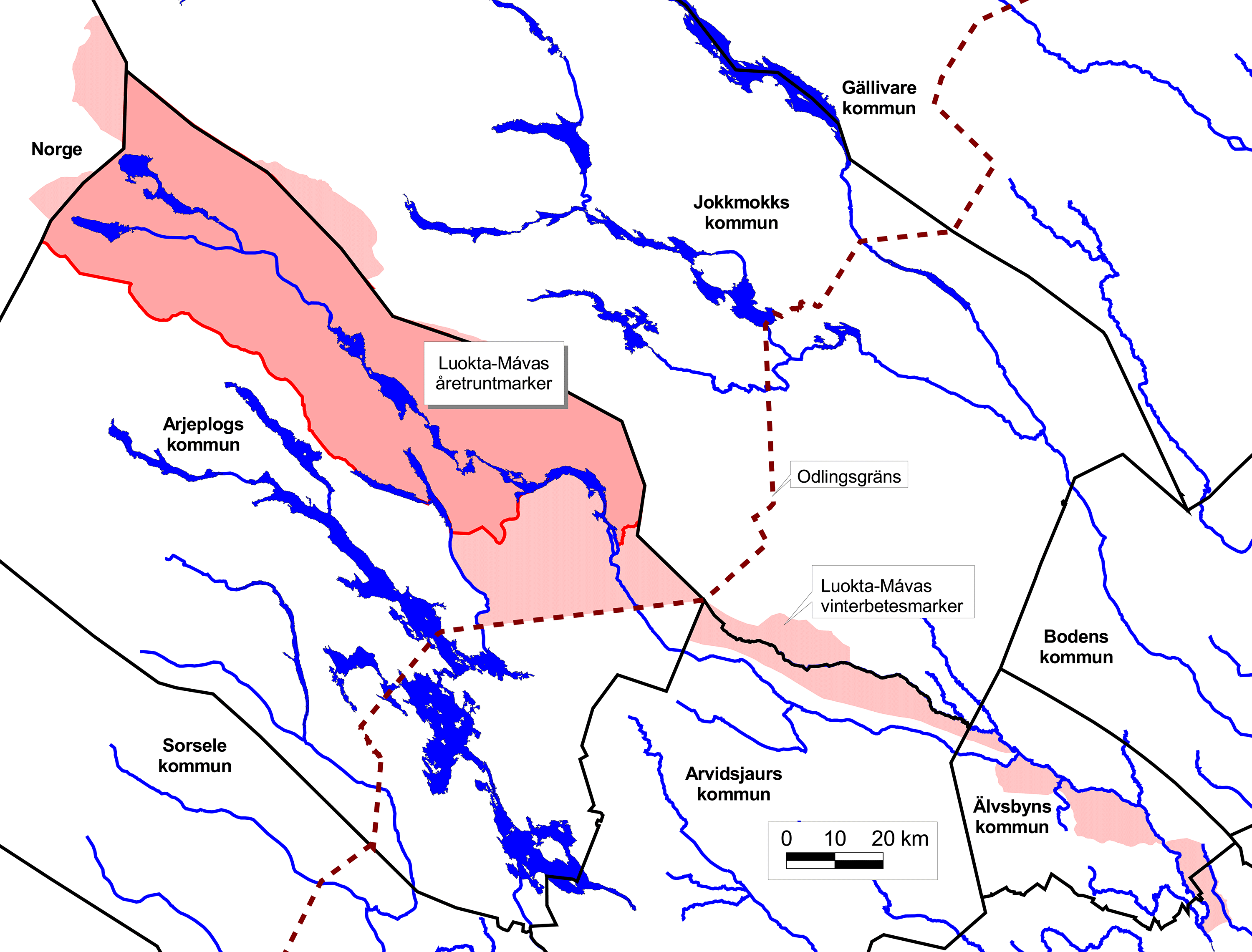 The area used by Luokta-Mávas sameby (Sáme community) in Norrbotten county, Sweden.